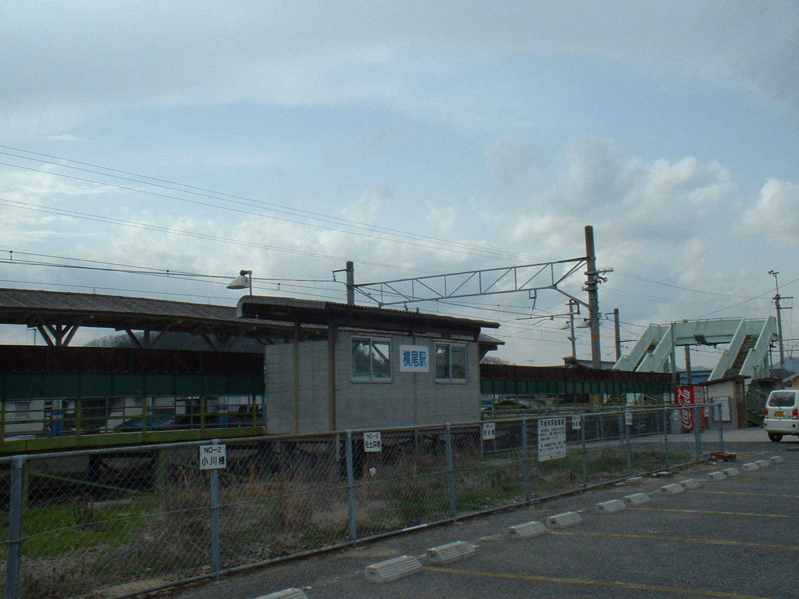 Yokoo Station